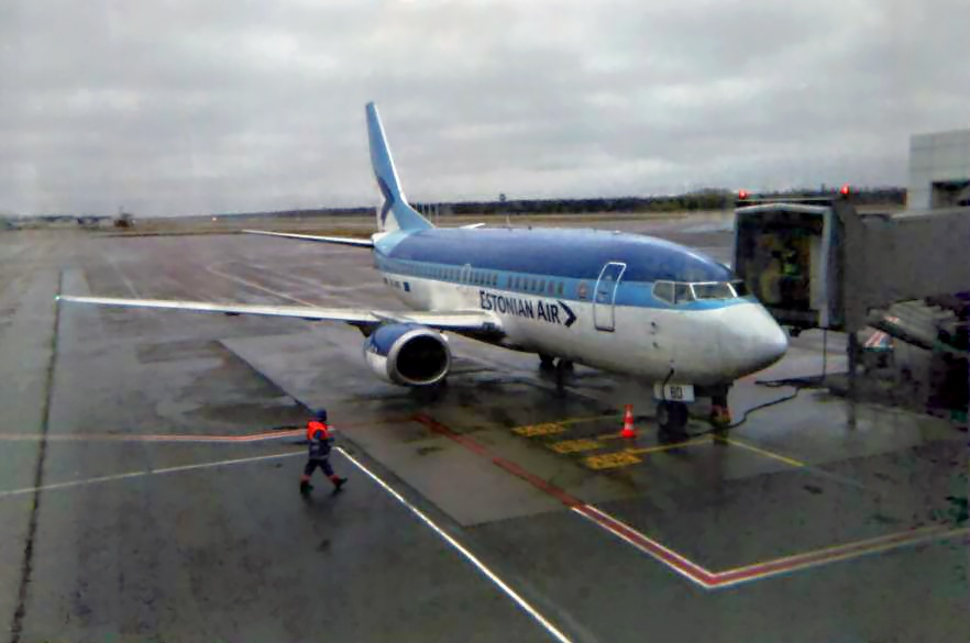 Estonian Air Boeing 737 at Tallinn Airport on January 13, 2006